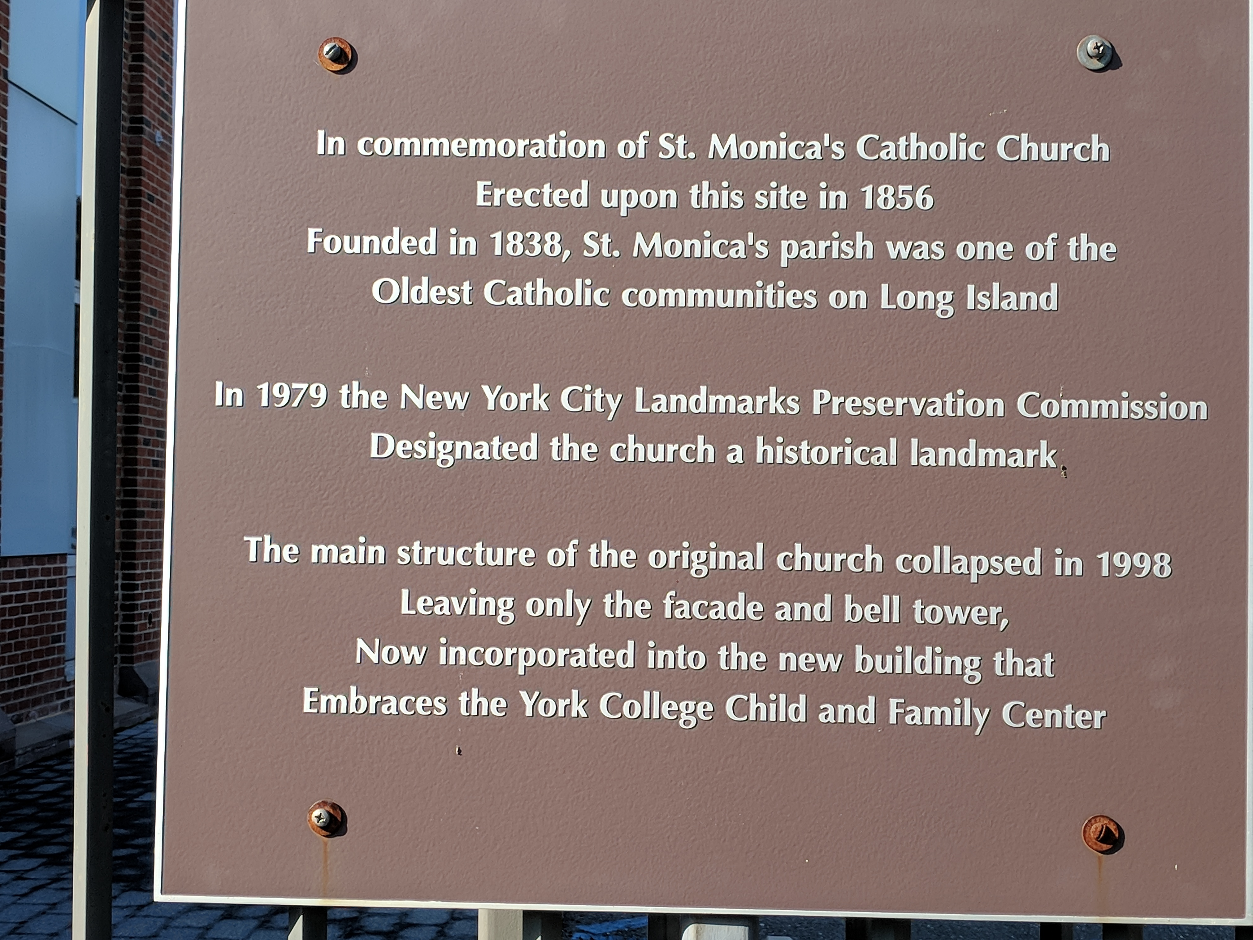 St Monica's Roman Catholic Church's central campanile is reminiscent of Romanesque architecture is one of the earliest surviving examples of 18th century early Romanesque revival architecture in N.Y.